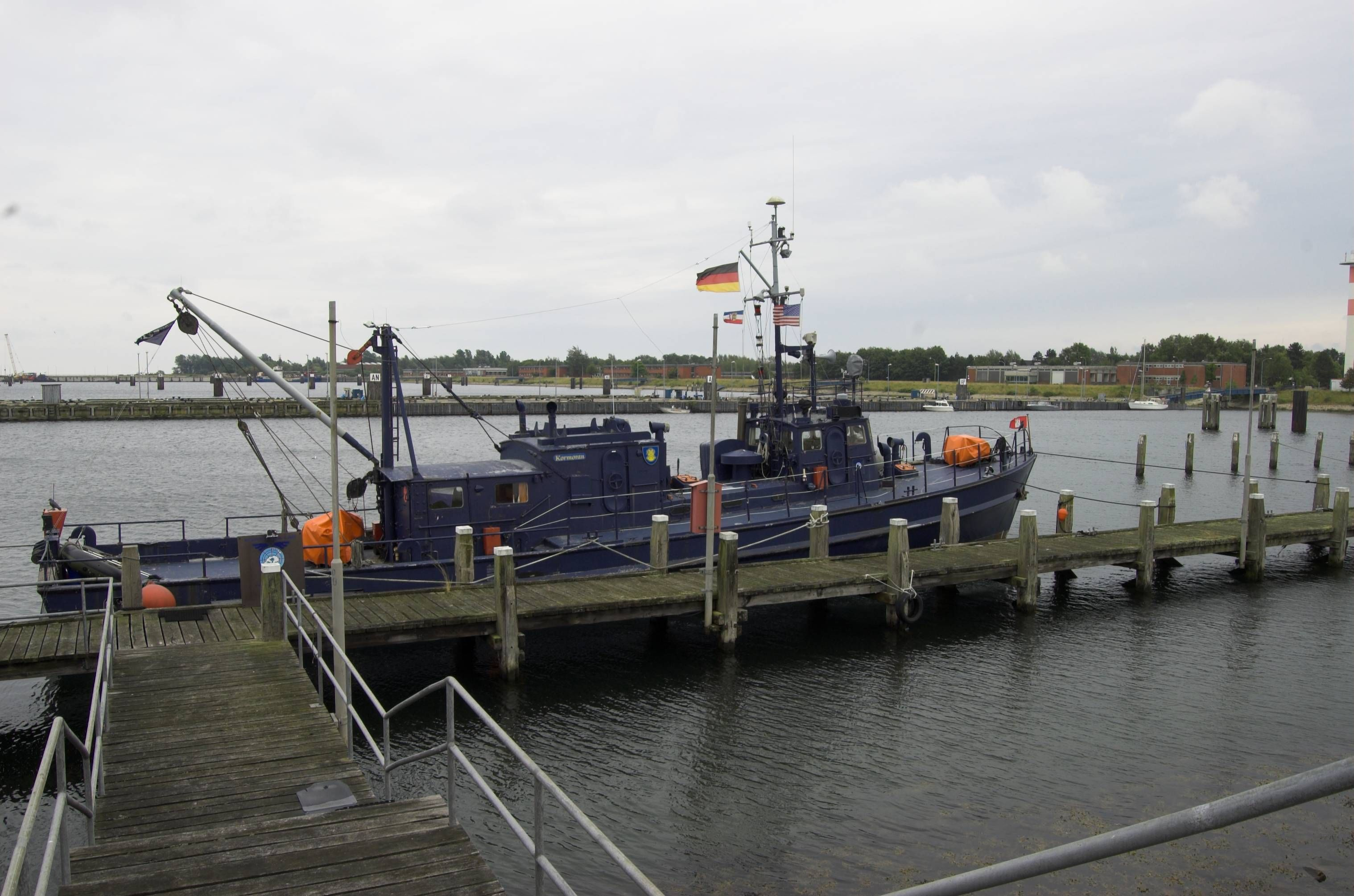 Harbour of the former military base Olpenitz